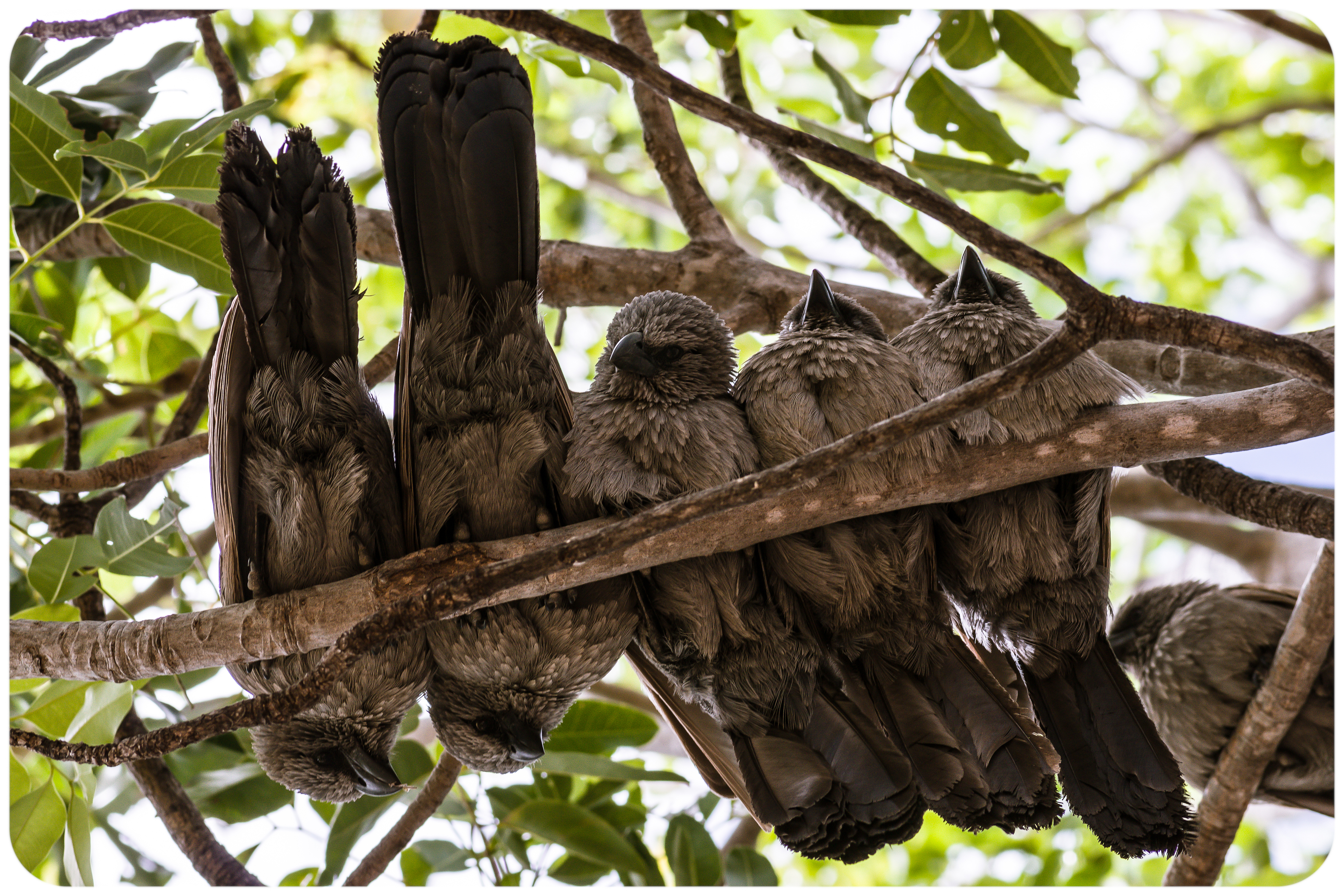 Lake Belmore, Croydon, Queensland, Australia - 18th of August, 2016